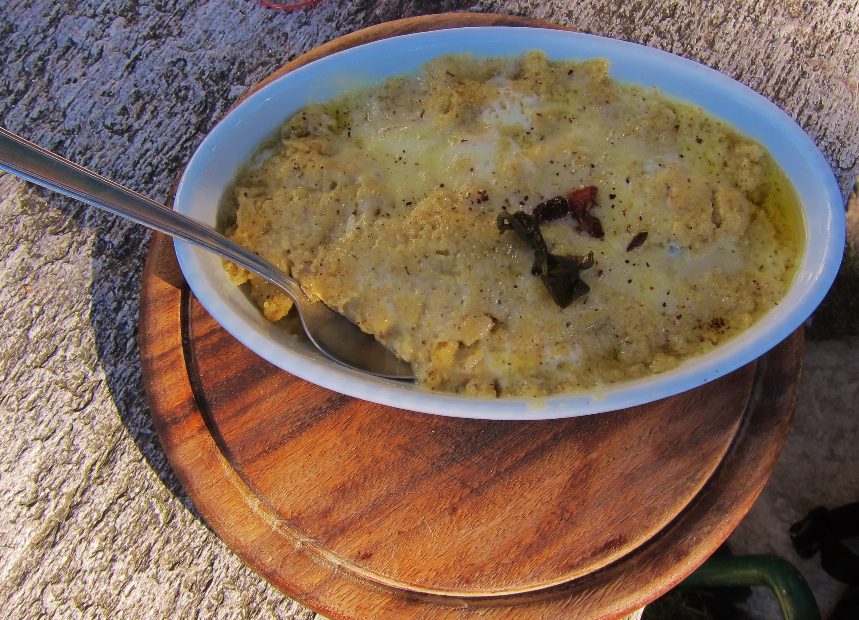 Polenta served in the recipe called "uncia", in the dialect of Como, which means greasy. This version of polenta is called greasy because it is blended with cheese and butter until both of them melt and mixed with the porridge. This one was served at the alpine hut "Rifugio Riella" on the mountain Monte Palanzone (Como) on the 8th of november in 2015.